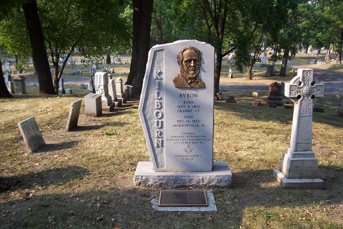 Copyright © 2005 Sulfur Gravesite of city founder Byron Kilbourn, located on the grounds of Forest Home Cemetery in Milwaukee, Wisconsin.